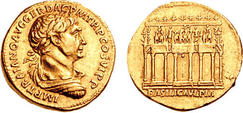 TRAJAN. 98-117 AD. AV Aureus (7.24 gm, 8h). Struck 112 AD. IMP TRAIANO AVG GER DAC P M TR P COS VI P P, laureate, draped, and cuirassed bust right, seen from behind; BASILICA VLPIA in exergue, the Basilica Ulpia: building façade with three distyle avant-corps, each set on two-tiered base; central epistylon surmounted by triumphal quadriga; figures on either side holding outer horses and long sceptres; flanking epistyla each surmonted by biga; pair of legionary aquilae at outer ends; ornate architrave above. RIC II 247; Strack 202b; BMCRE 492; Calicó 988; cf. Cohen 42-43.